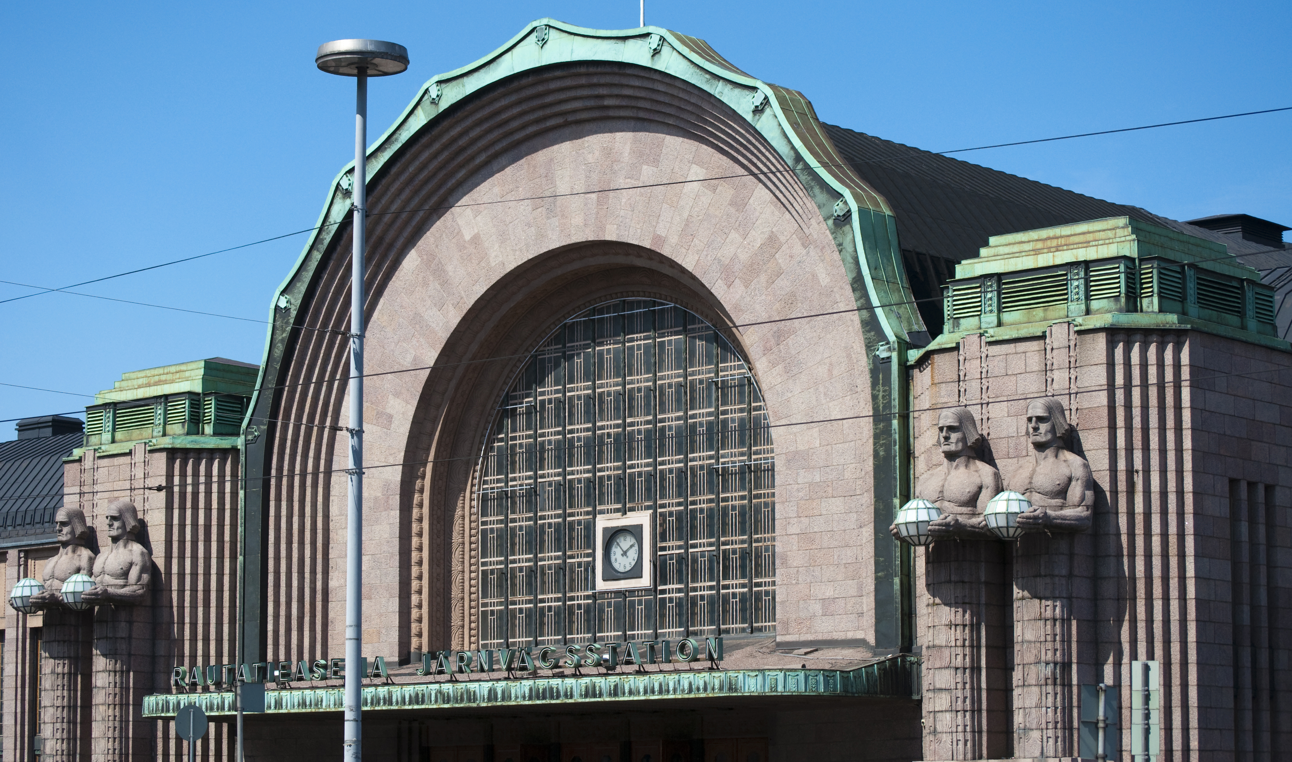 Helsinki Central railway station